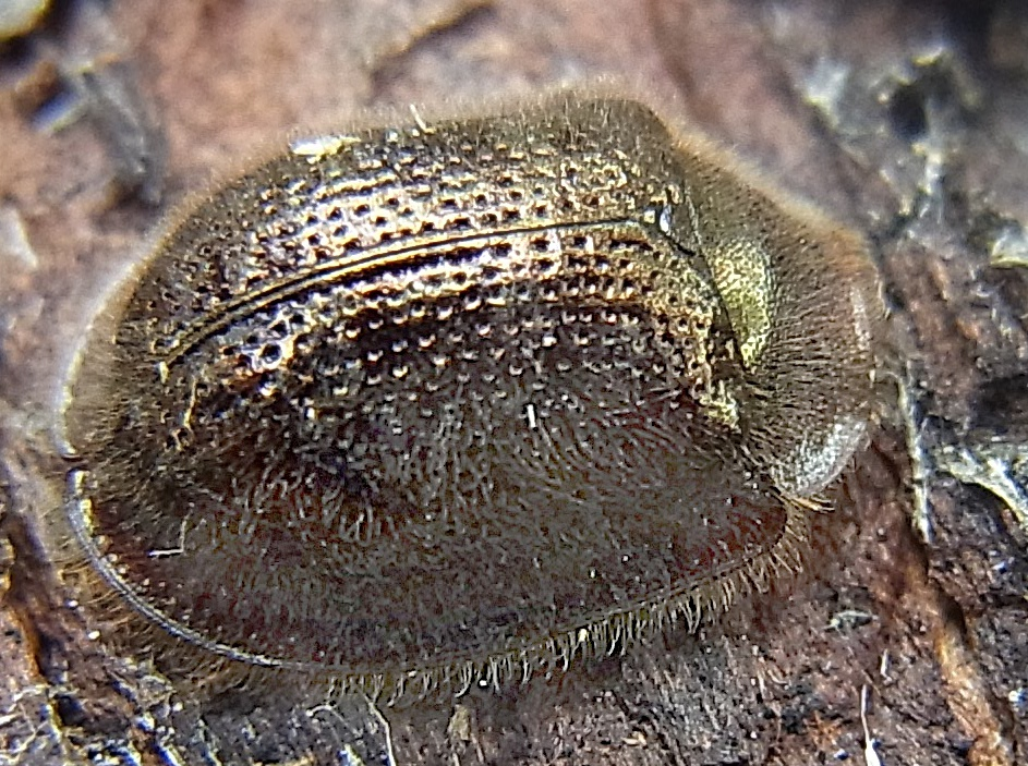 Thymalus limbatus from Pyrenees at the border between France and Spain between Isabe (Spain) and Arette (France) at 1755 m hight at 2013-08-27